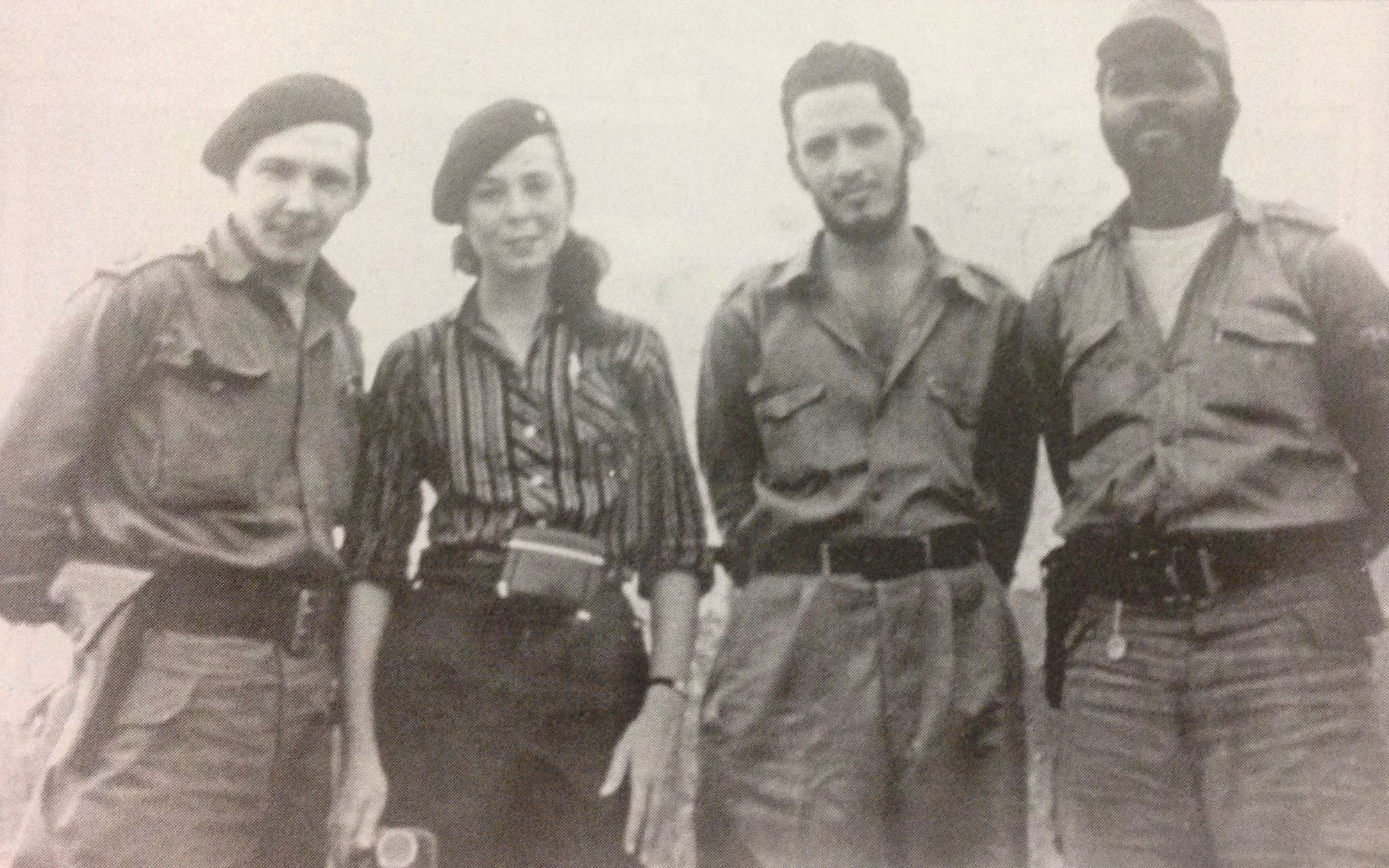 Raúl Castro, Vilma Espín Guillois, Jorge Risquet and José Nivaldo Causse in Tumba Siete